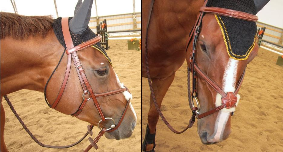 A bridle with a figure 8 noseband, also known as a grackle